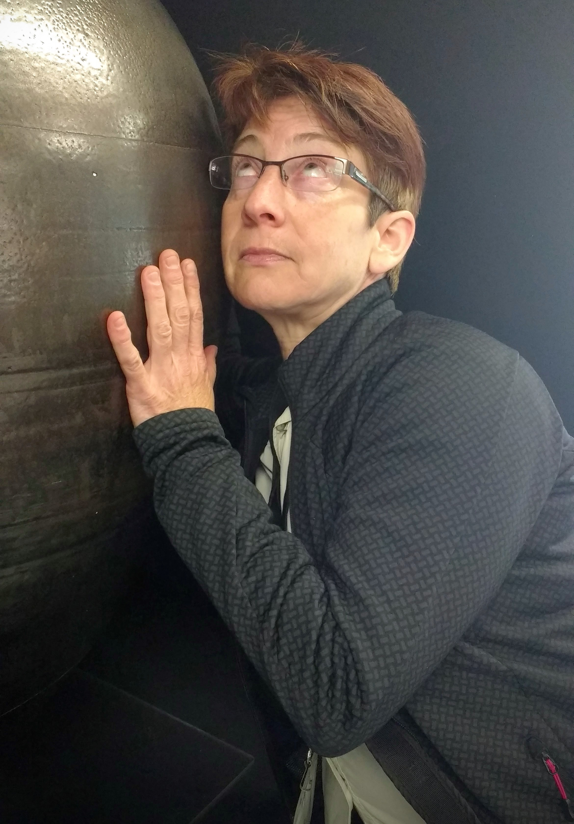 Linguist Arienne Dwyer at CoLang 2016 in Fairbanks, Alaska